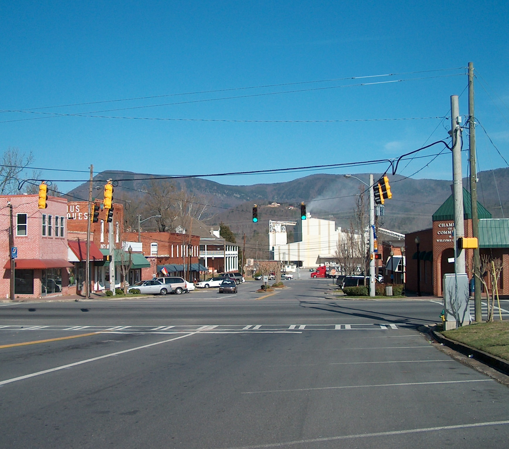 Downtown Chatsworth (photographed by Cculber007)